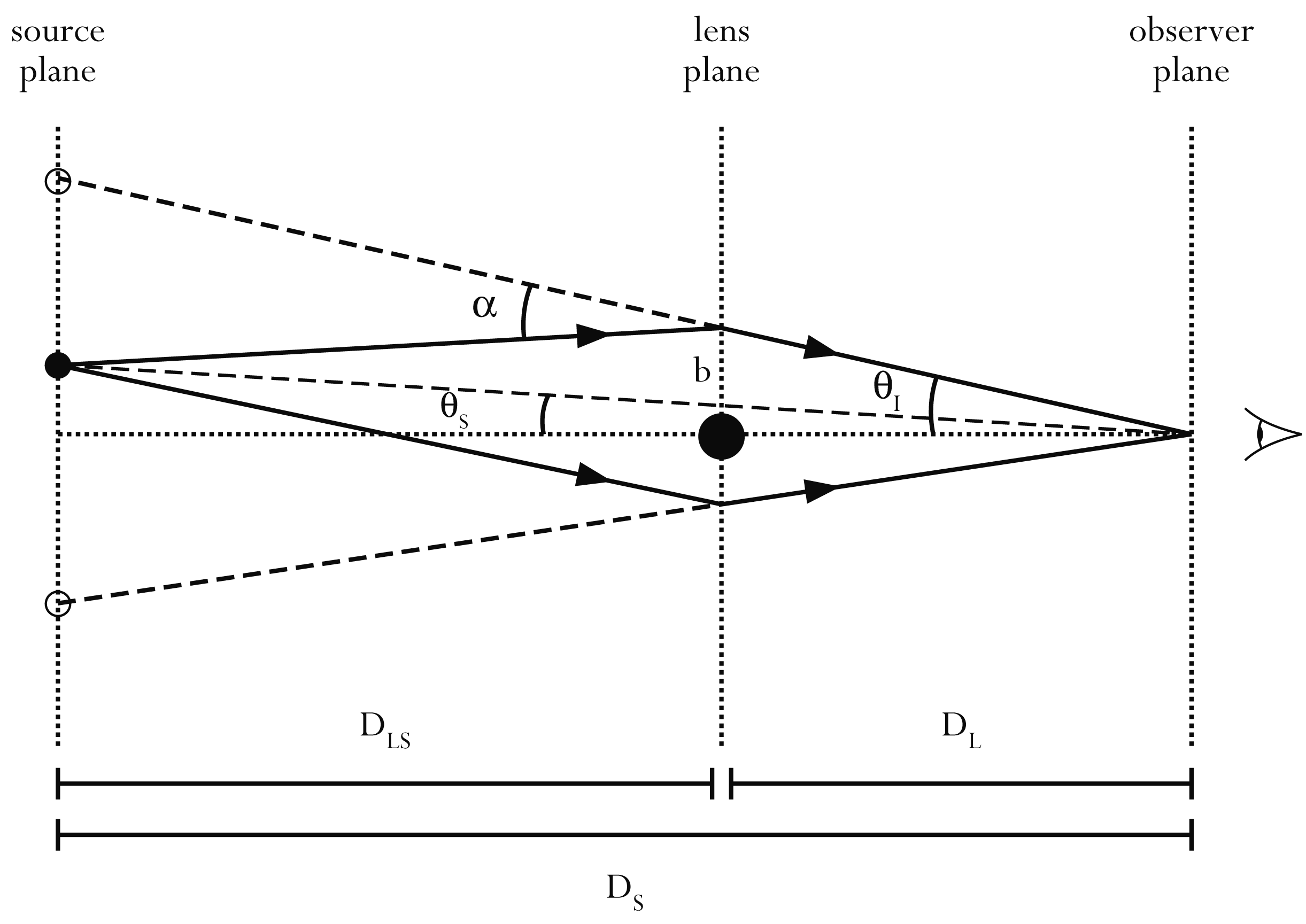 Gravitational lens geometry Image created and released into the public domain by Geoff Martin. Attribution is discouraged. Category:Gravitational lensing